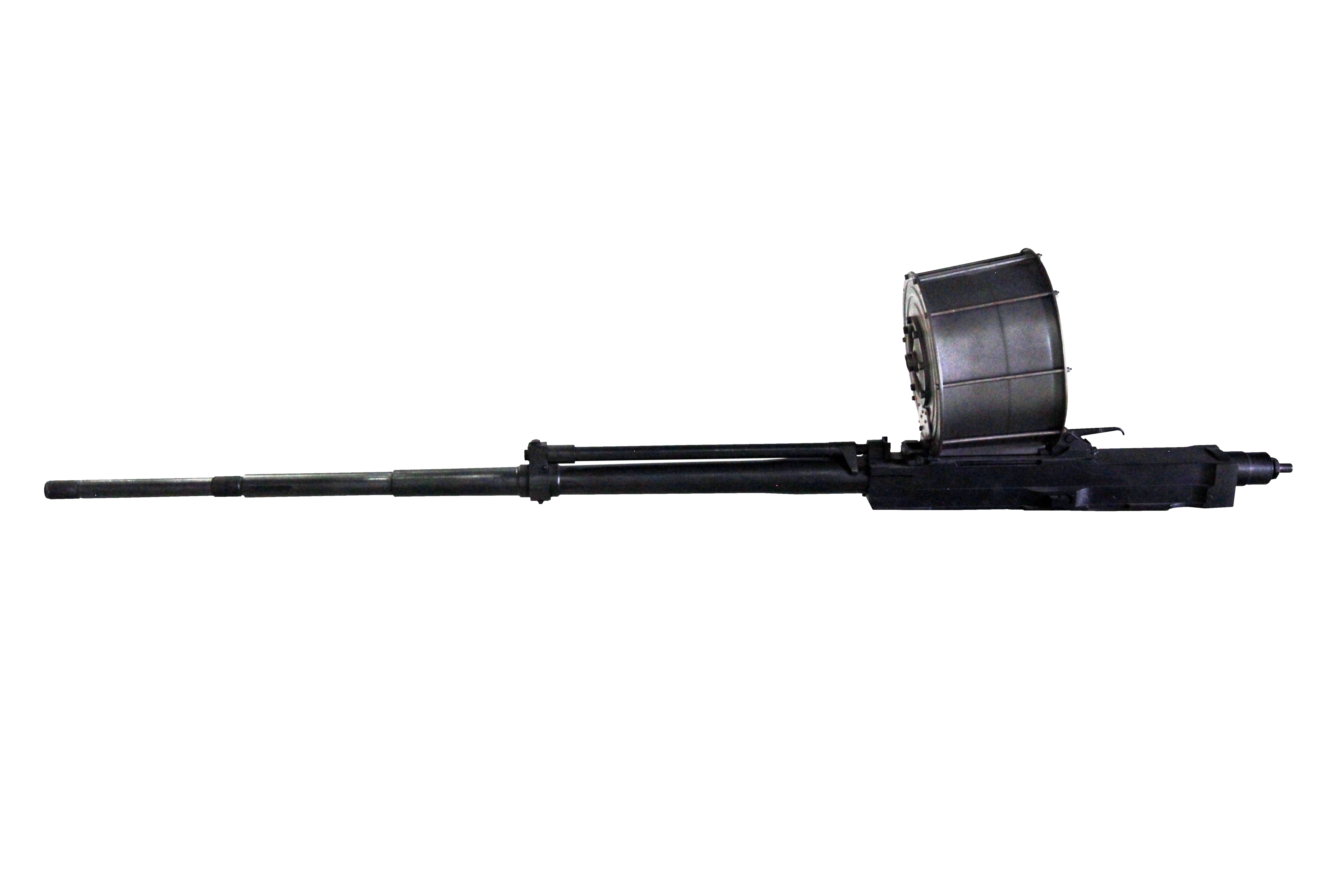 20 mm Hispano-Suiza Mk 5 cannon on display at the Imperial War Museum Duxford